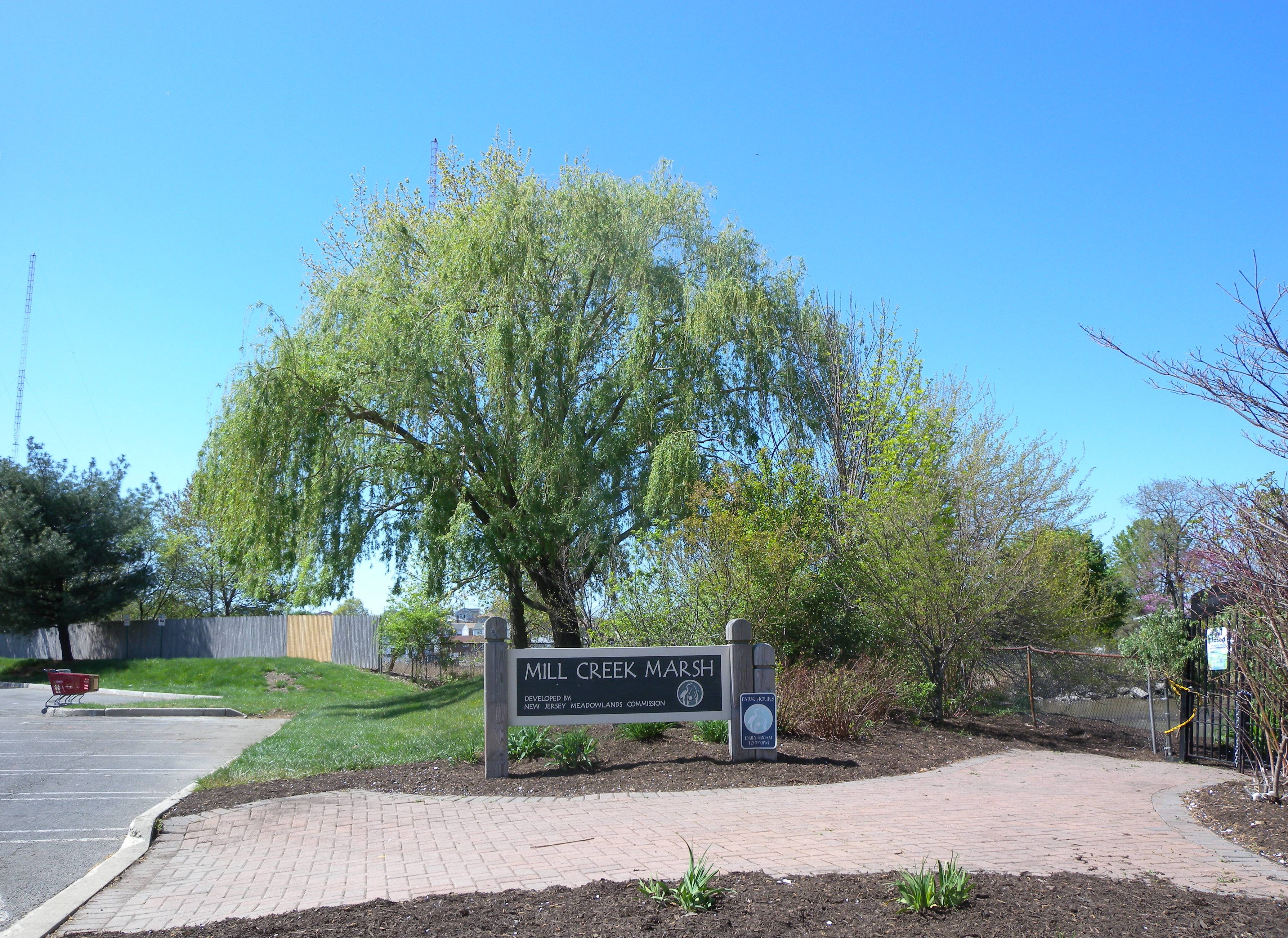 Looking northwest at willow by the closed gate of Mill Creek Marsh trail, operated by New Jersey Meadowlands Commission, on a sunny midday.